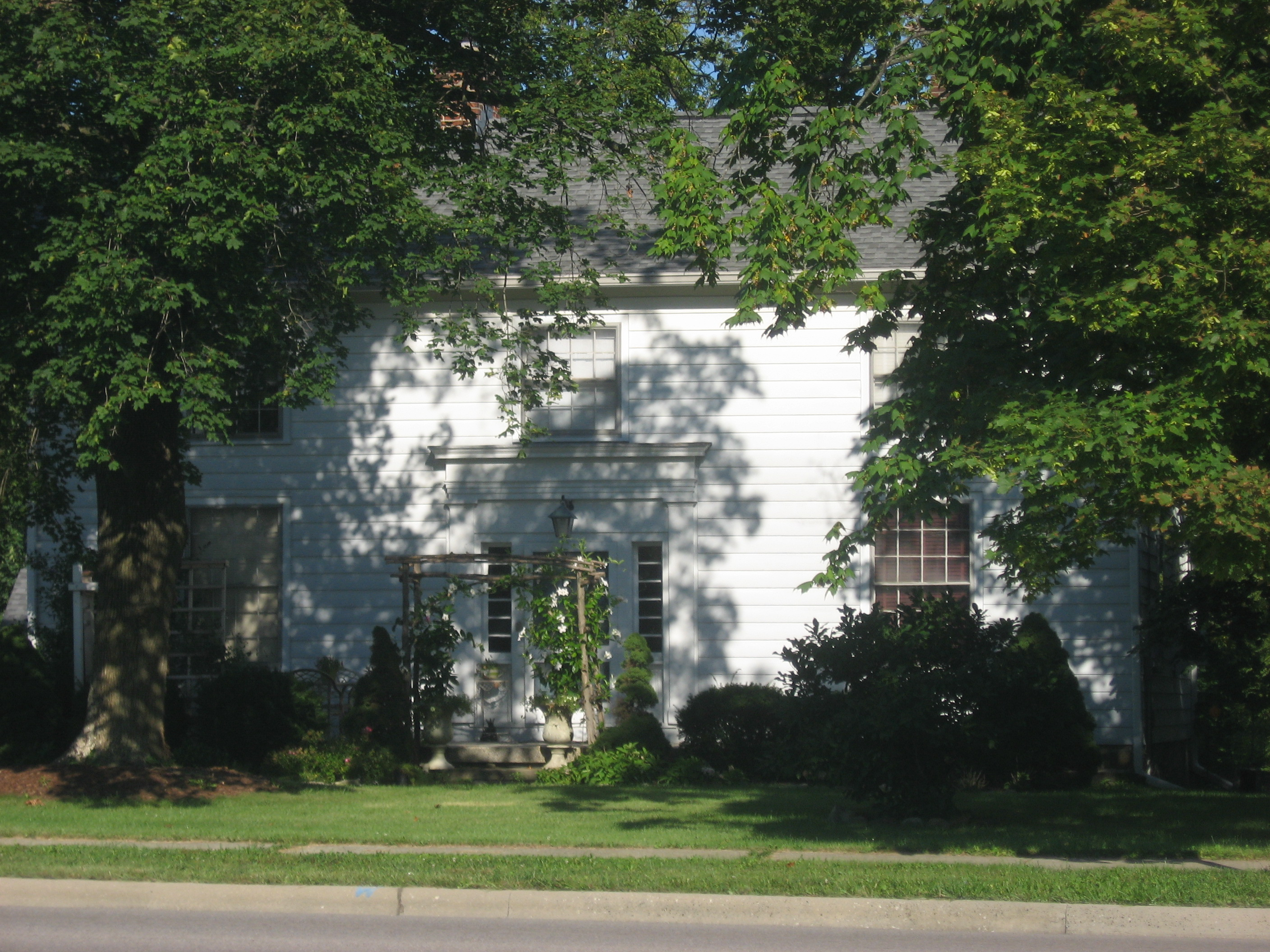 Front of the Presbyterian Parsonage, located at 908 Sunbury Road in Westerville, Ohio, United States. Built in 1841, it is listed on the National Register of Historic Places.